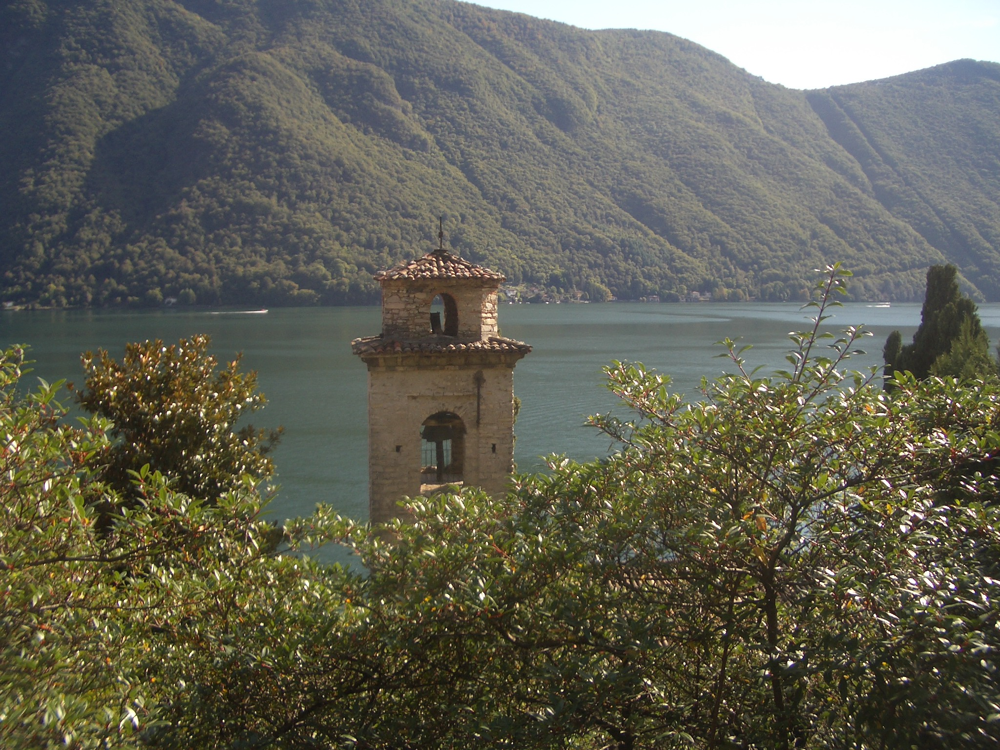 Oria Valsolda, view of the church's clock tower and of Lugano Lake